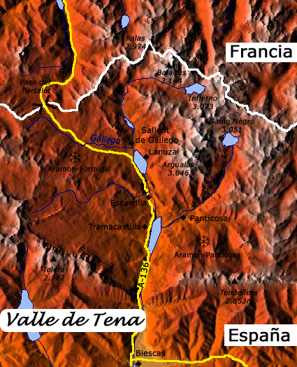 Map of Tena Valley in Spanish Pyrenees